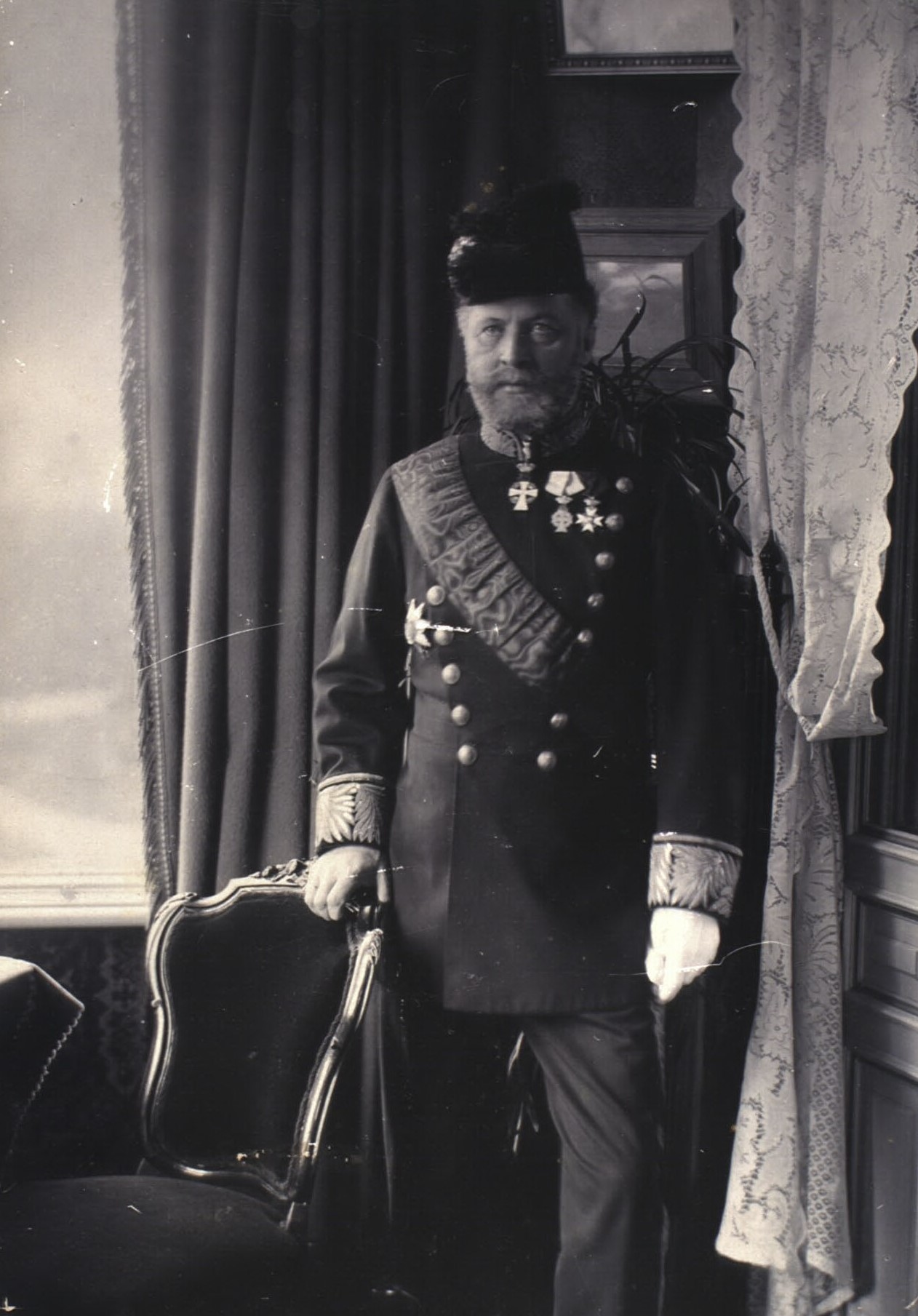 Danish insurance director and politician, interior minister, MP Ludvig Bramsen (1847-1914)